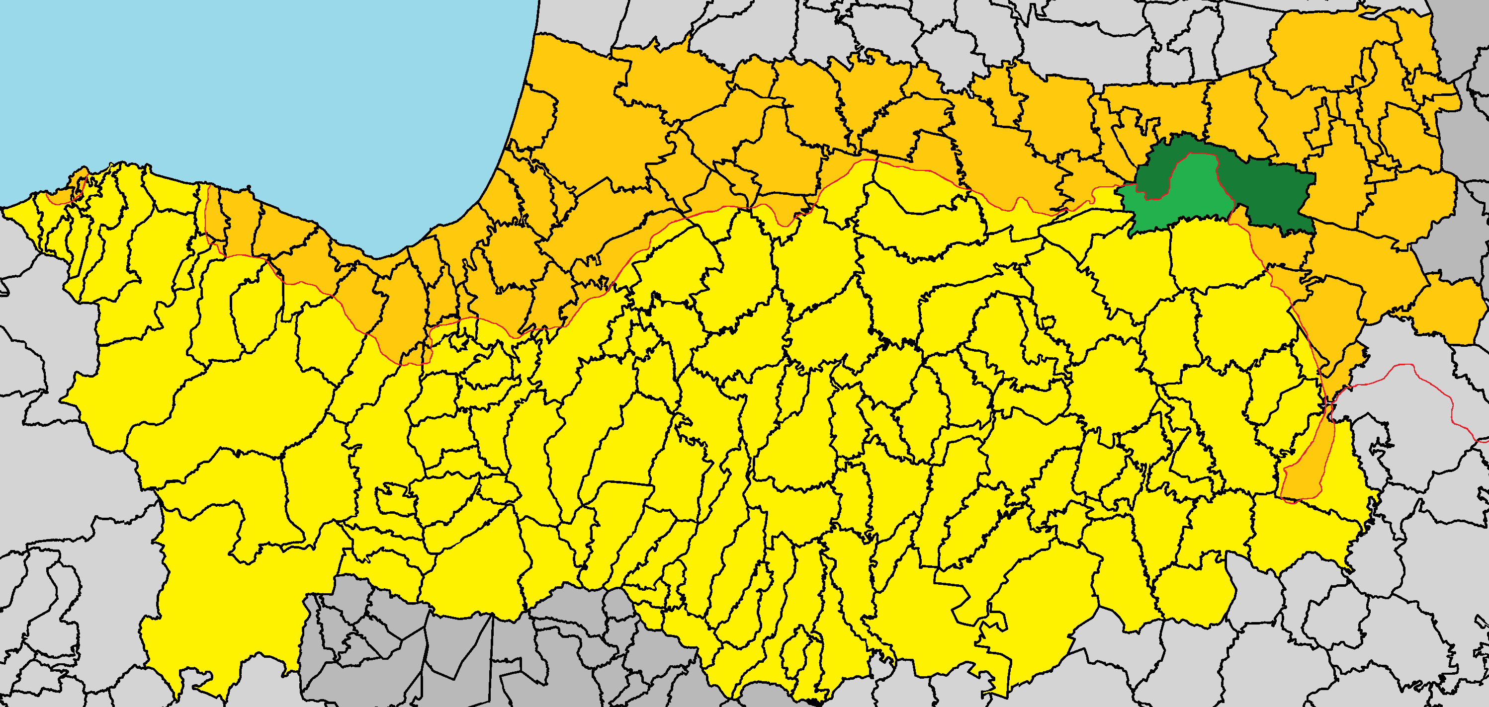 Nicosia Municipality in Nicosia District (de jure).